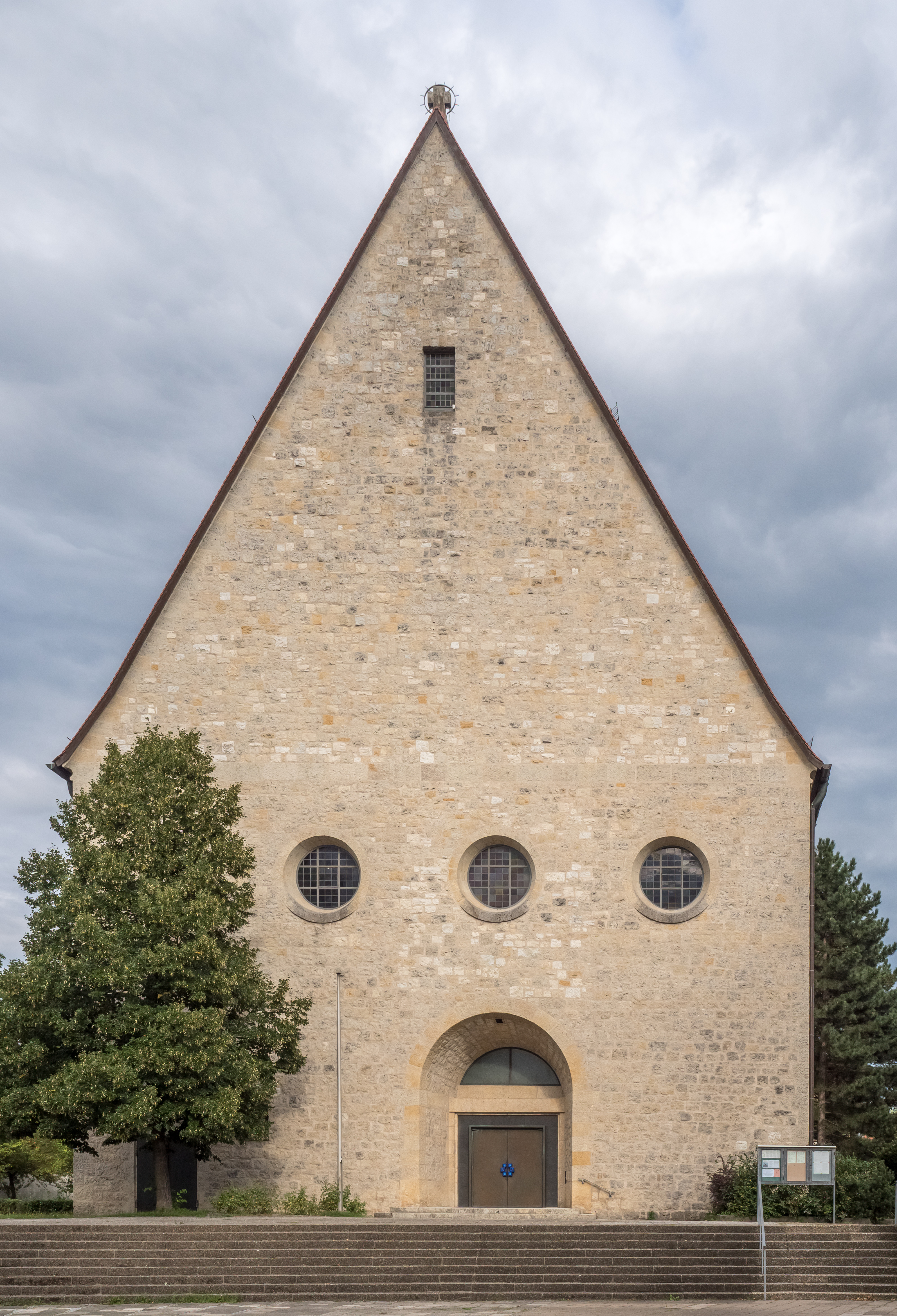 Entrance portal of the Catholic parish church St. Kunigung in Bamberg - Gartenstadt